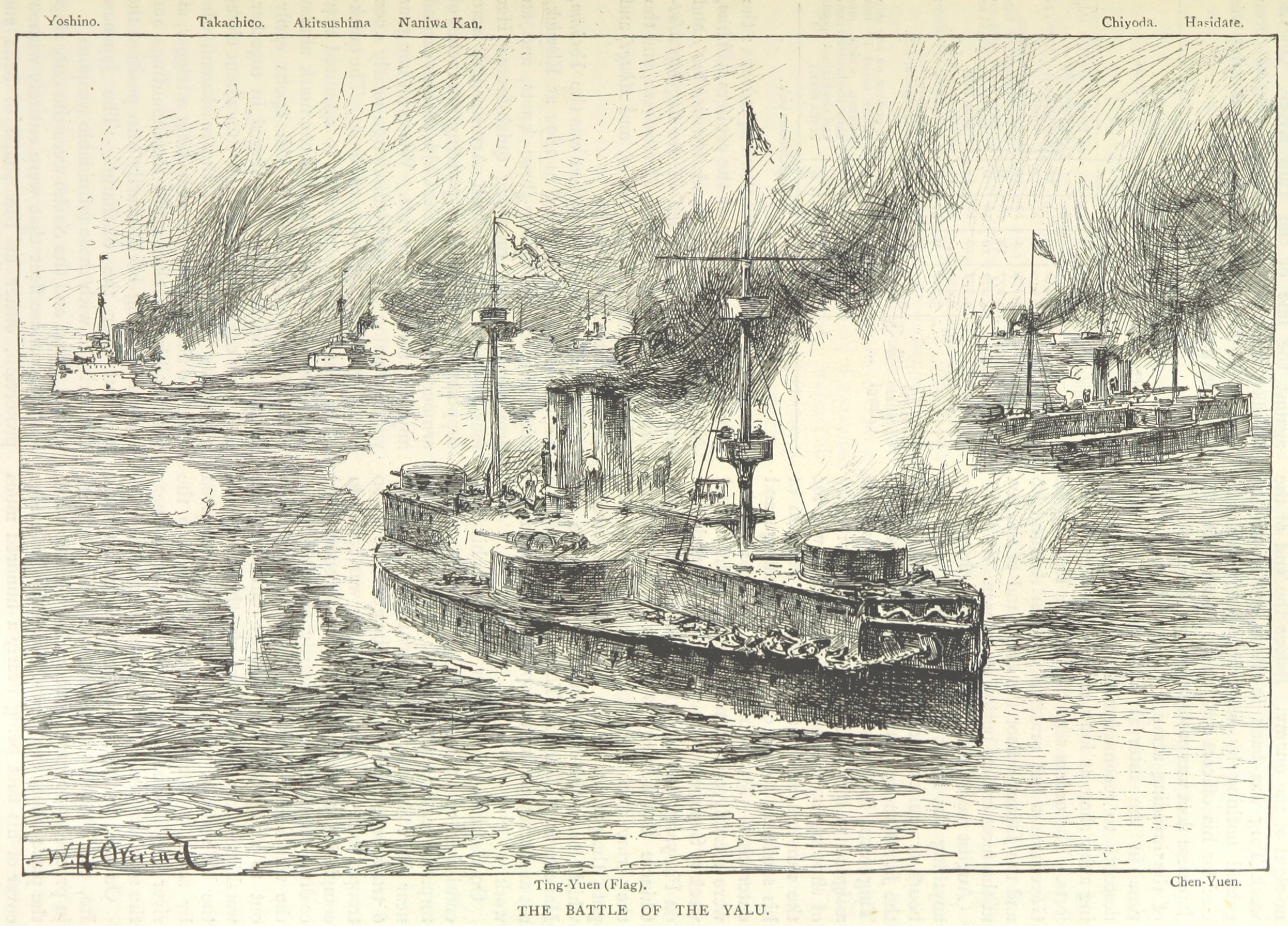 The Chinese battleships Dingyuan and Zhenyuan come under fire from the Japanese fleet at the 1894 Battle of the Yalu River.